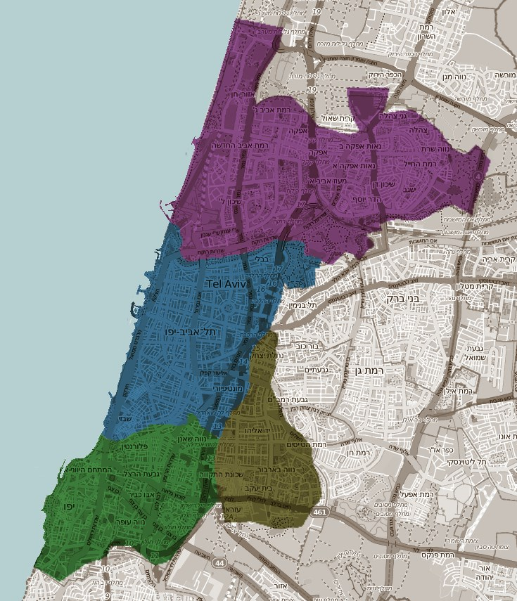 This map may be incomplete, and may contain errors. Don't rely solely on it for navigation.